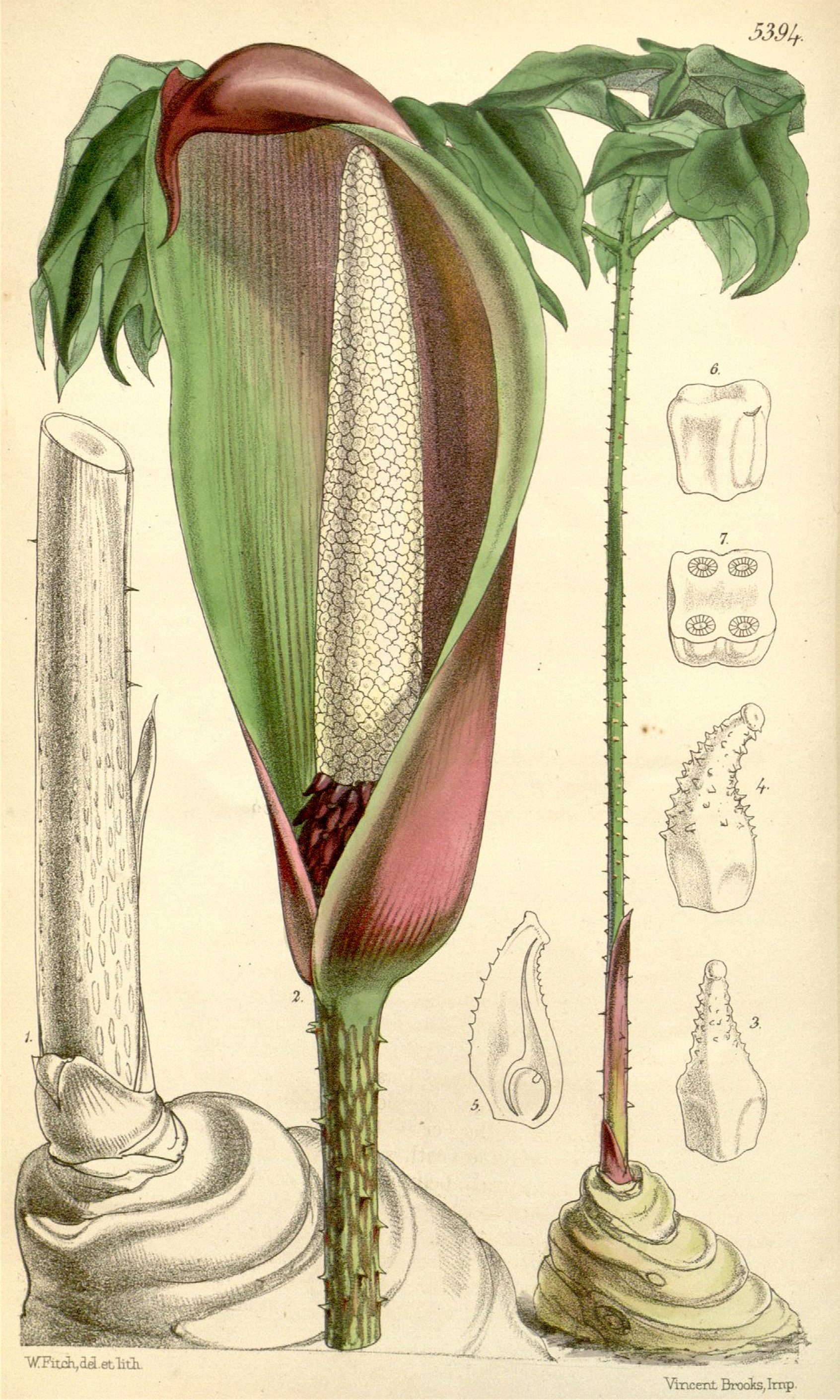 Anchomanes difformis botanical drawing in Curtis's Bot. Mag.